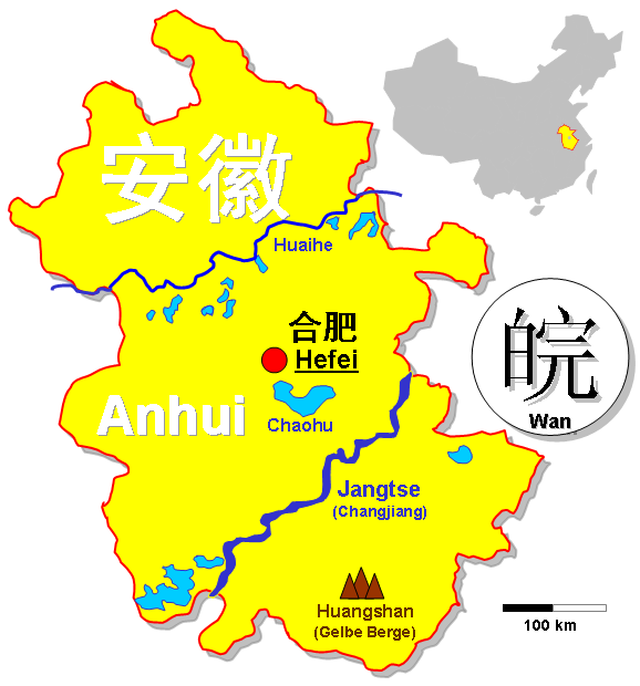 Chinese province Anhui